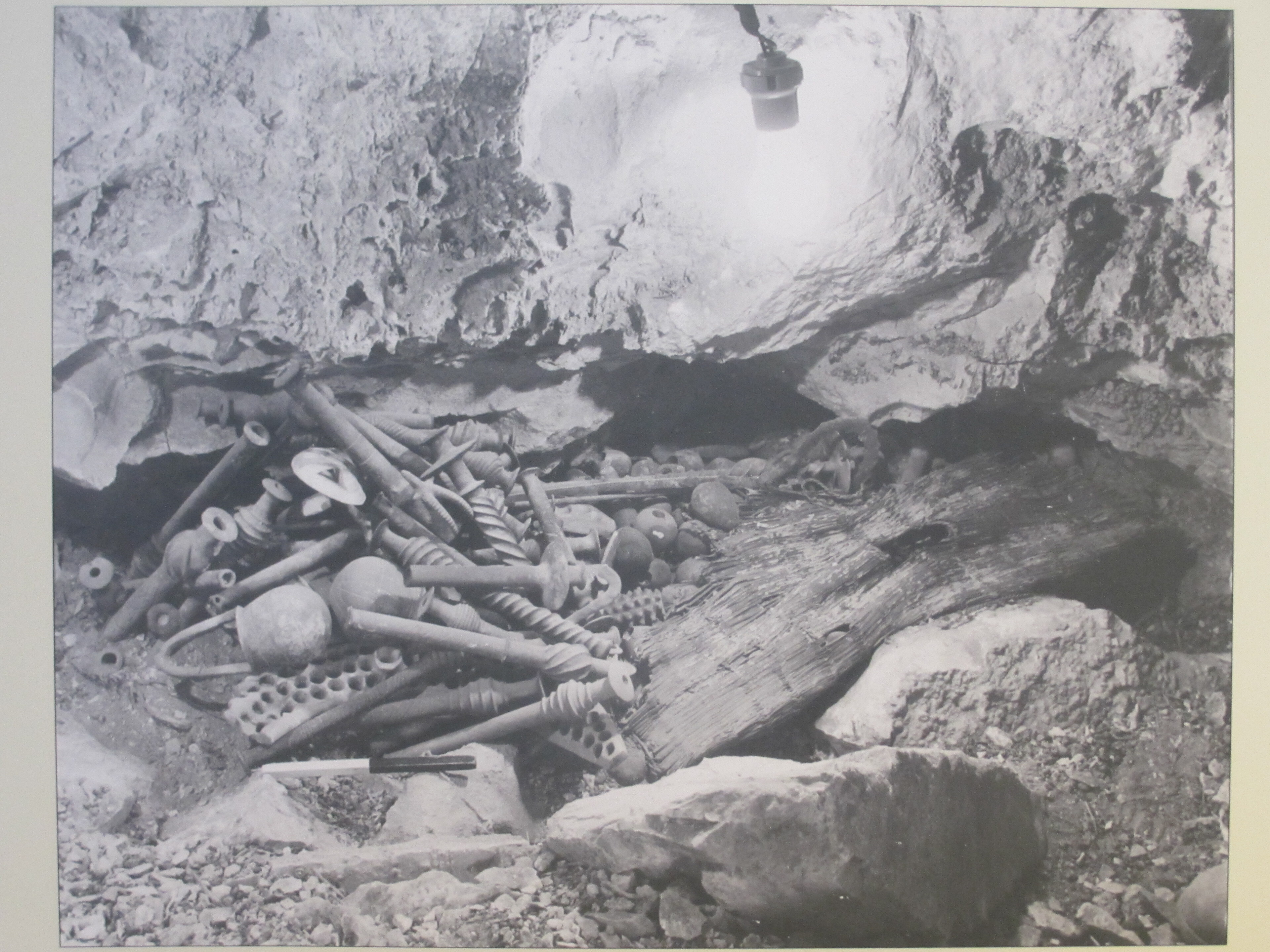 Photo of discovery of Nahal Mishmar Hoard. Israel Museum, Jerusalem